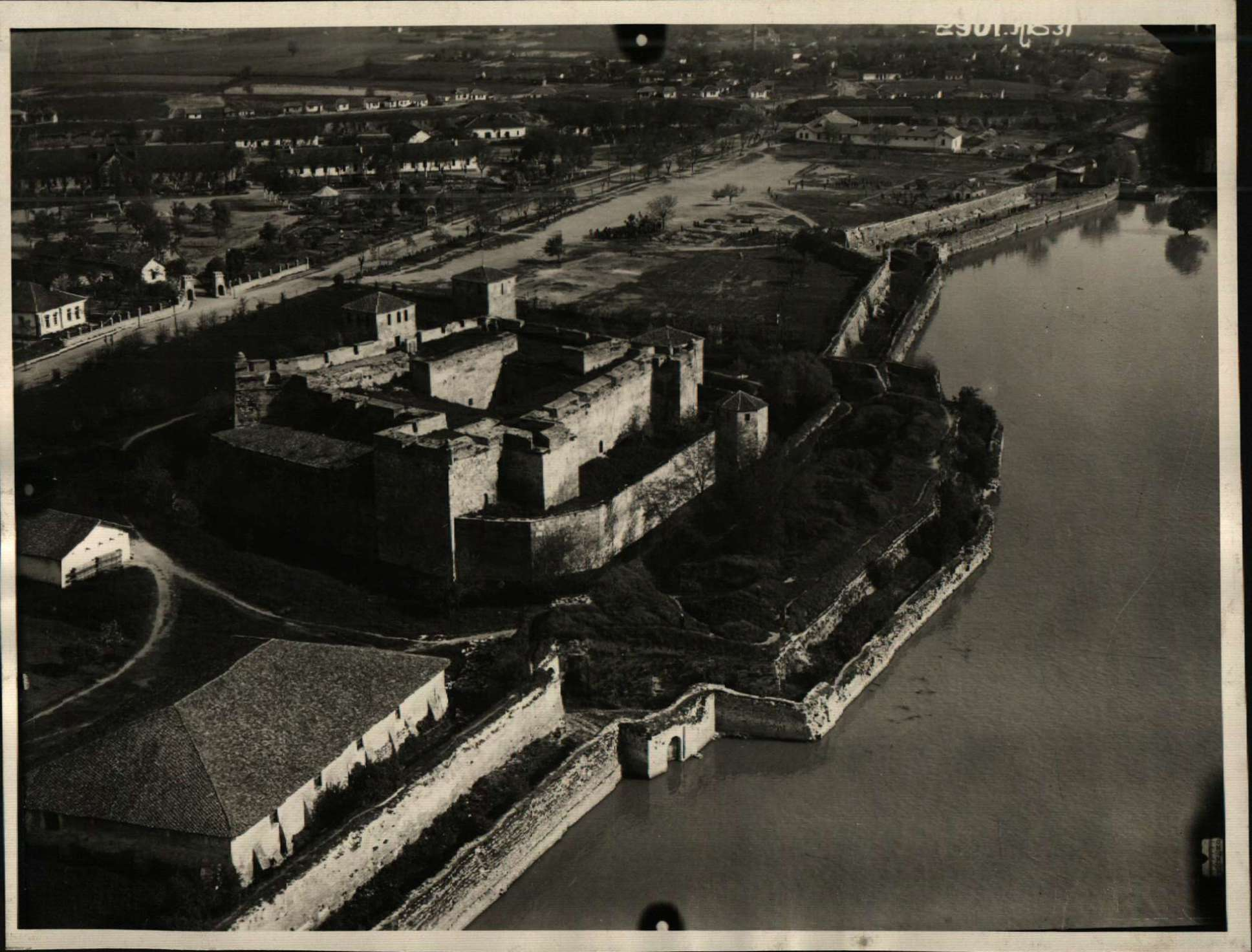 Baba Vida fortress and the Danube near Vidin, Bulgaria, as seen from the air. Picture taken between 1927 and 1934.